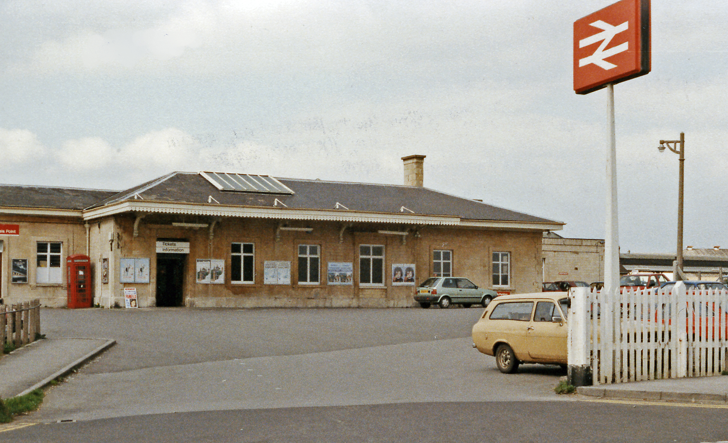 Chippenham station: entrance, Down side, 1989. View northward: ex-GWR London (right) - Bristol (left) main line.